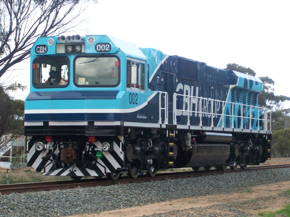 Cropped closeup image of CBH class locomotive no. CBH002 Mooterdine, at Wagin, Western Australia Photograph by Daryle Phillips Circa 2012